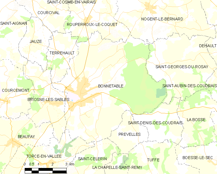 Map of French municipality